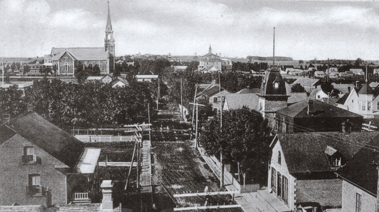 Print (photomechanical), St. Calixte Street, from east side, Plessisville, QC, about 1910, Ink on paper mounted on card - Collotype - 6.8 x 12.5 cm